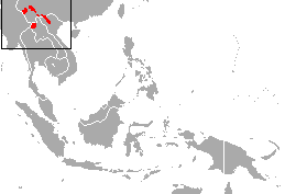 Black Crested Gibbon (Nomascus concolor) range